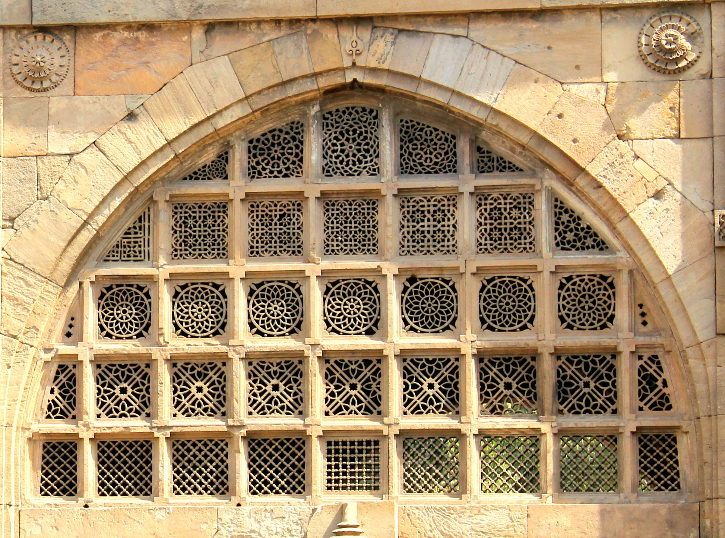 Image Of Sidi Saiyyed Mosque